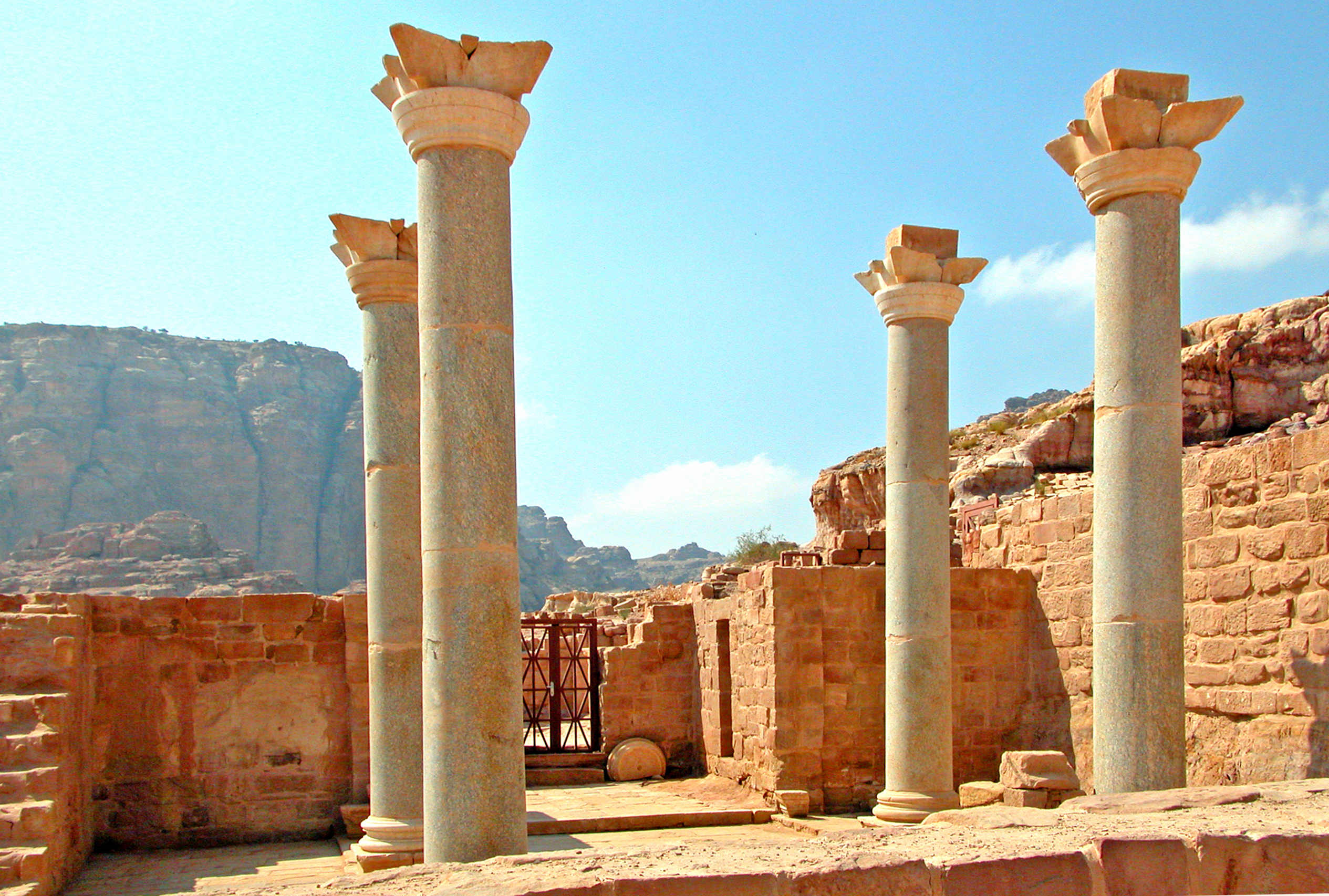 PLEASE, no multi invitations in your comments. DO NOT FEEL YOU HAVE TO COMMENT.Thanks. Located just above the North Ridge Church is the Blue Church, named after it’s impressive columns. Petra, Jordan